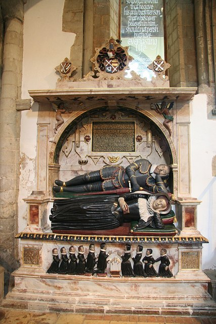 Denny Monument Marvellous late-Elizabethan monument to Sir Edward Denny and his wife Lady Margaret with 'weepers' depicting their 7 sons and 3 daughters. The symbolism shows that the boys with swords were over 21 when their father died, the girls with ruffs were married and the two children with linked arms were twins. The monument was sculpted in 1600 by Bartholomew Ayde and Isaac James of St.Martin-in-the-Fields. Lady Margaret survived her husband by 48 years and is buried at Bishop's Stortford. In the spandrels, figures of Fame and Time watch over the Denny family.